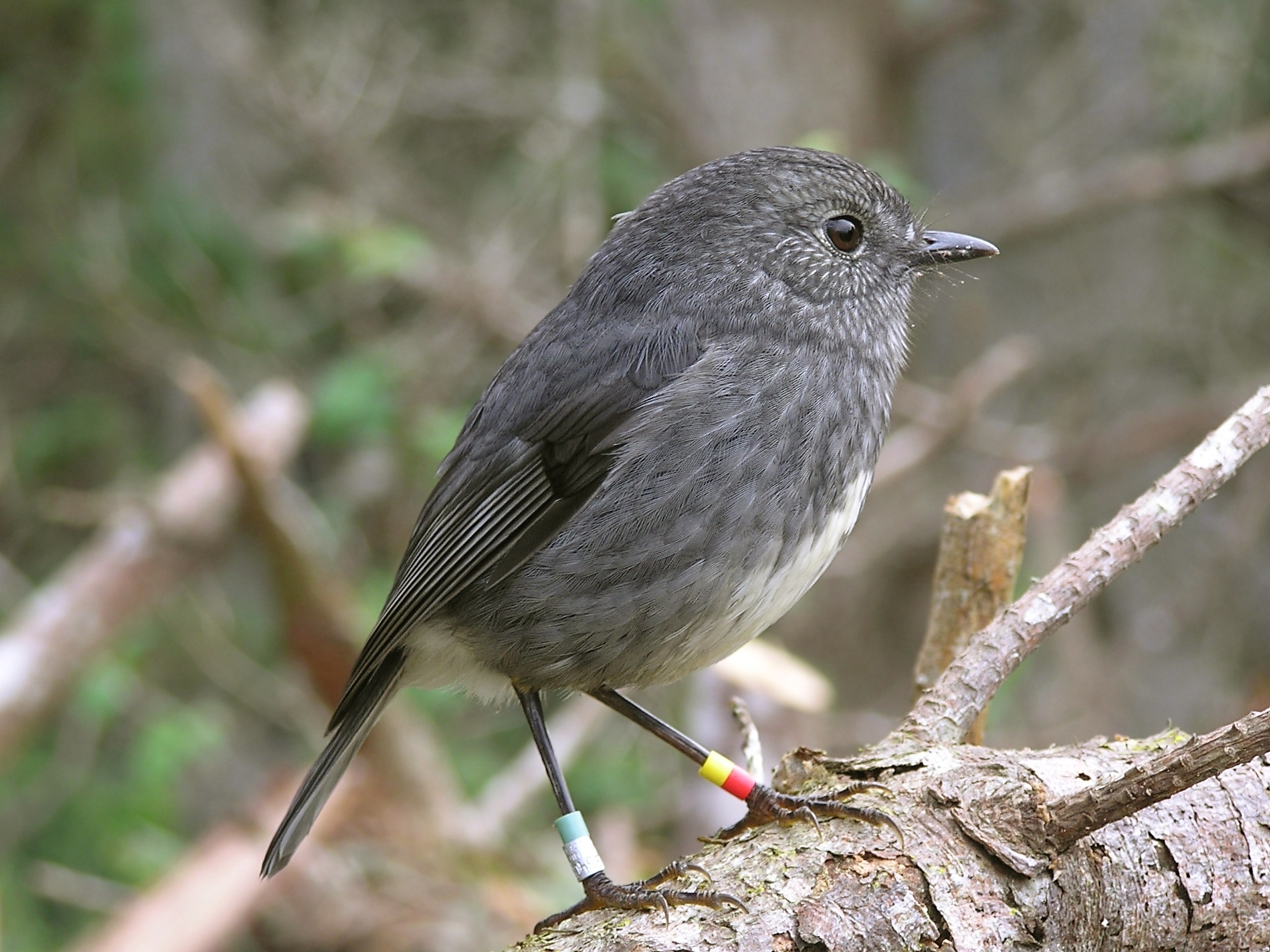 New Zealand North Island Robin. This bird is banded to identify it as part of a restoration scheme to return robins to Wellington and was released in the Karori Wildlife Sanctuary, an area surrounded by a predator proof fence.